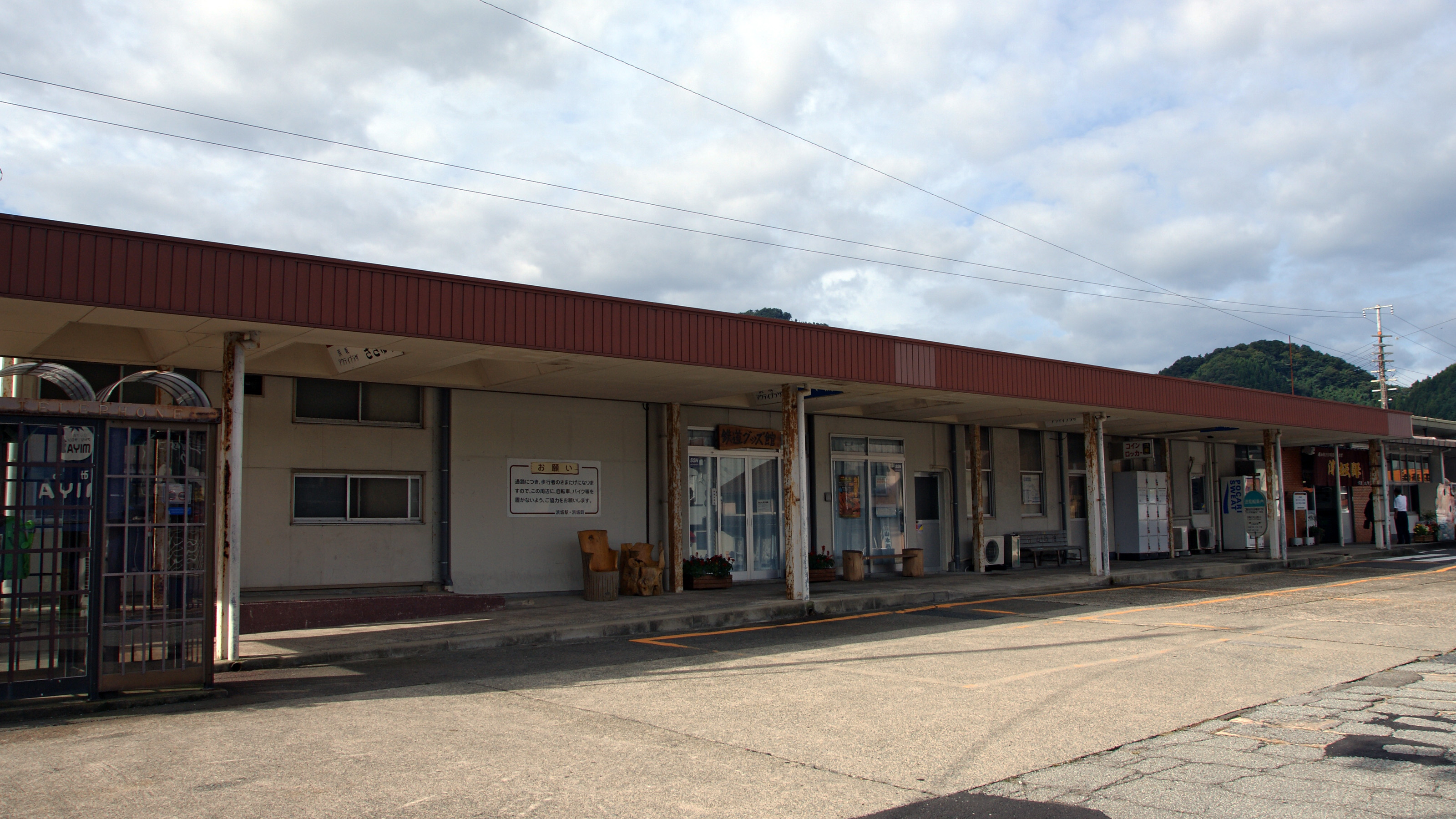 Hamasaka Station in Shinonsen, Hyogo prefecture, Japan